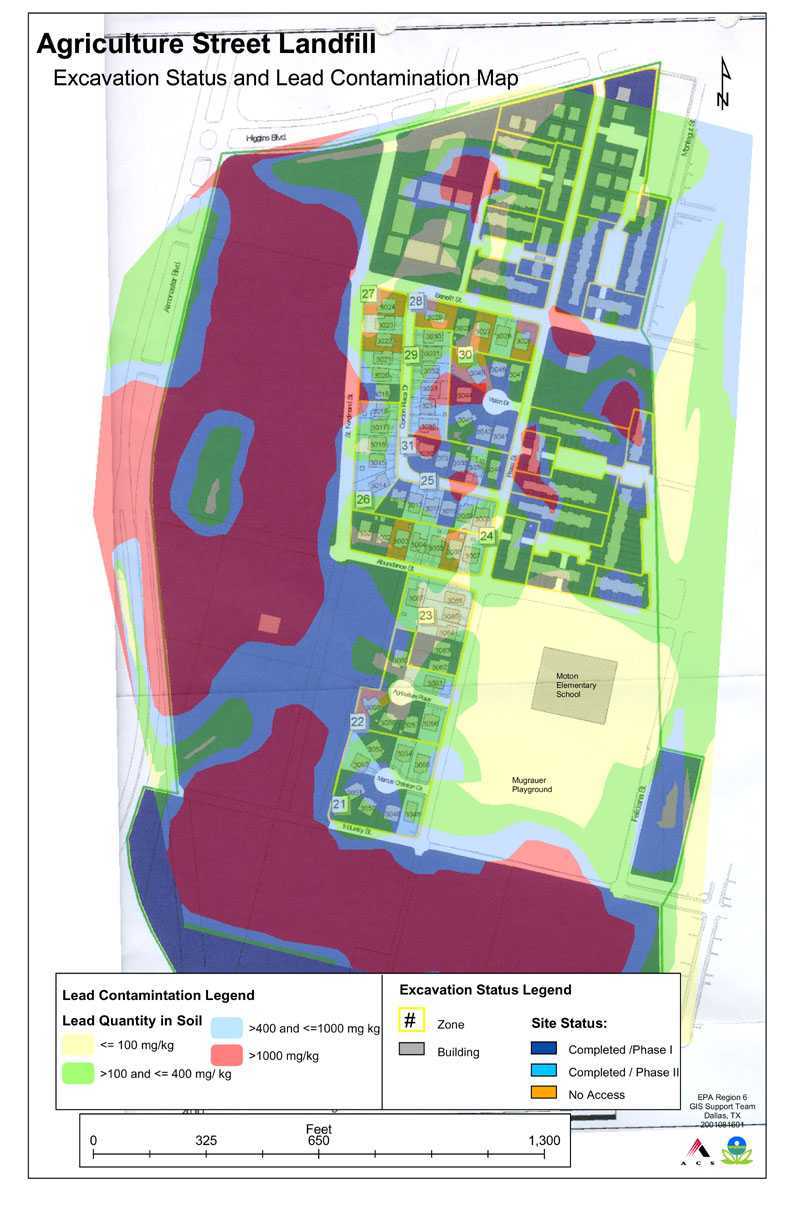 An EPA map detailing lead contamination at the Agriculture Street Landfill Superfund site in New Orleans, Louisiana.